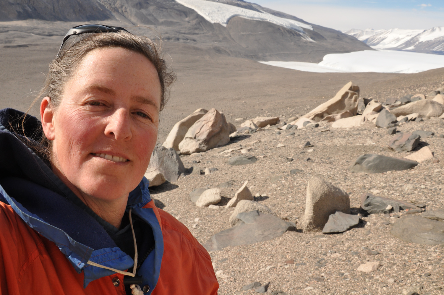 This selfie shows Dawn Y Sumner in Pearse Valley, Antarctica. The view is to the east with the Catspaw glacier high on the slopes of the Asgard Range. The Taylor Glacier and Lake Joyce are visible in the upper right of the image below the distant Kukri Hills.